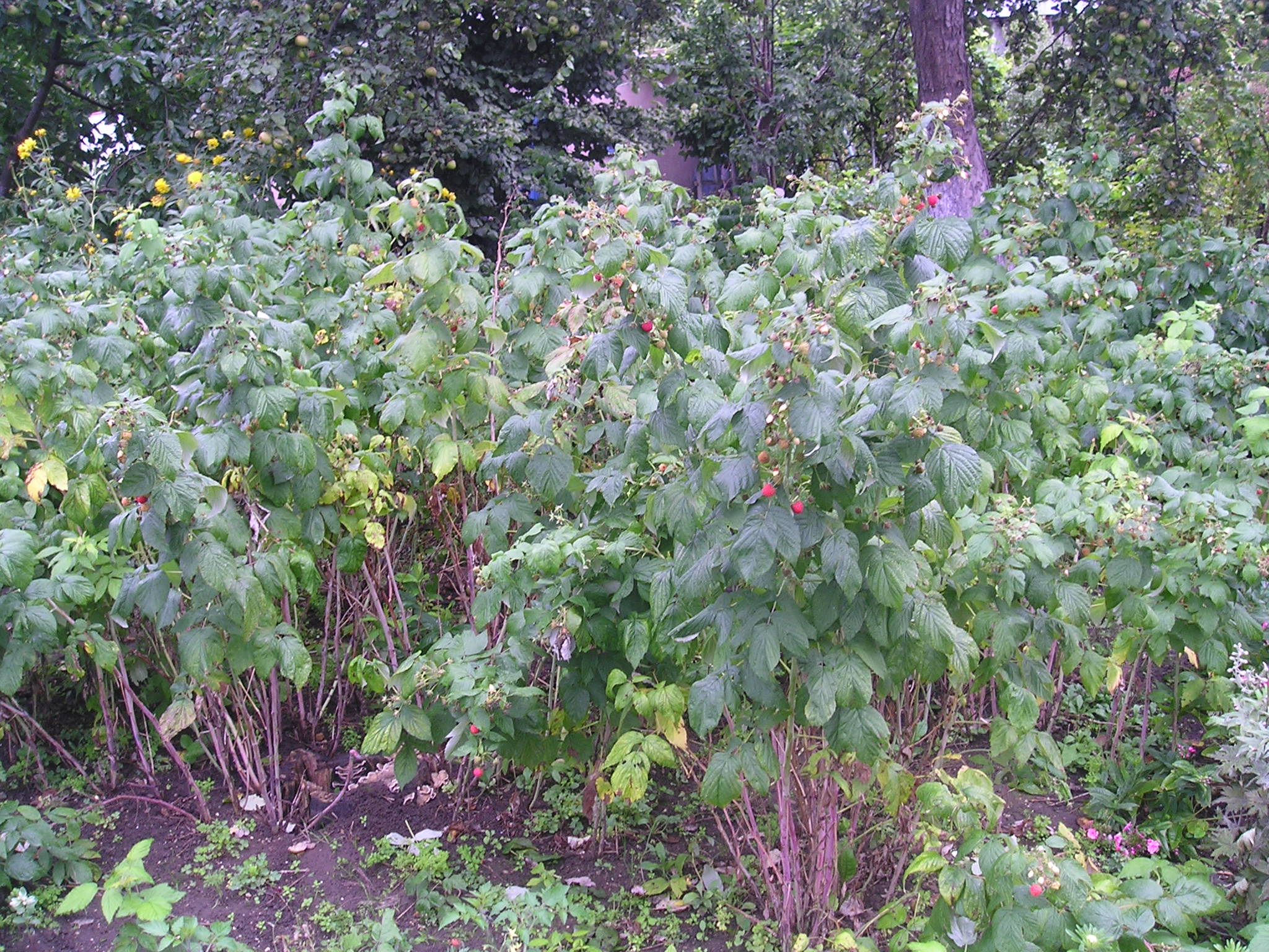 Bush of raspberry Krzak maliny